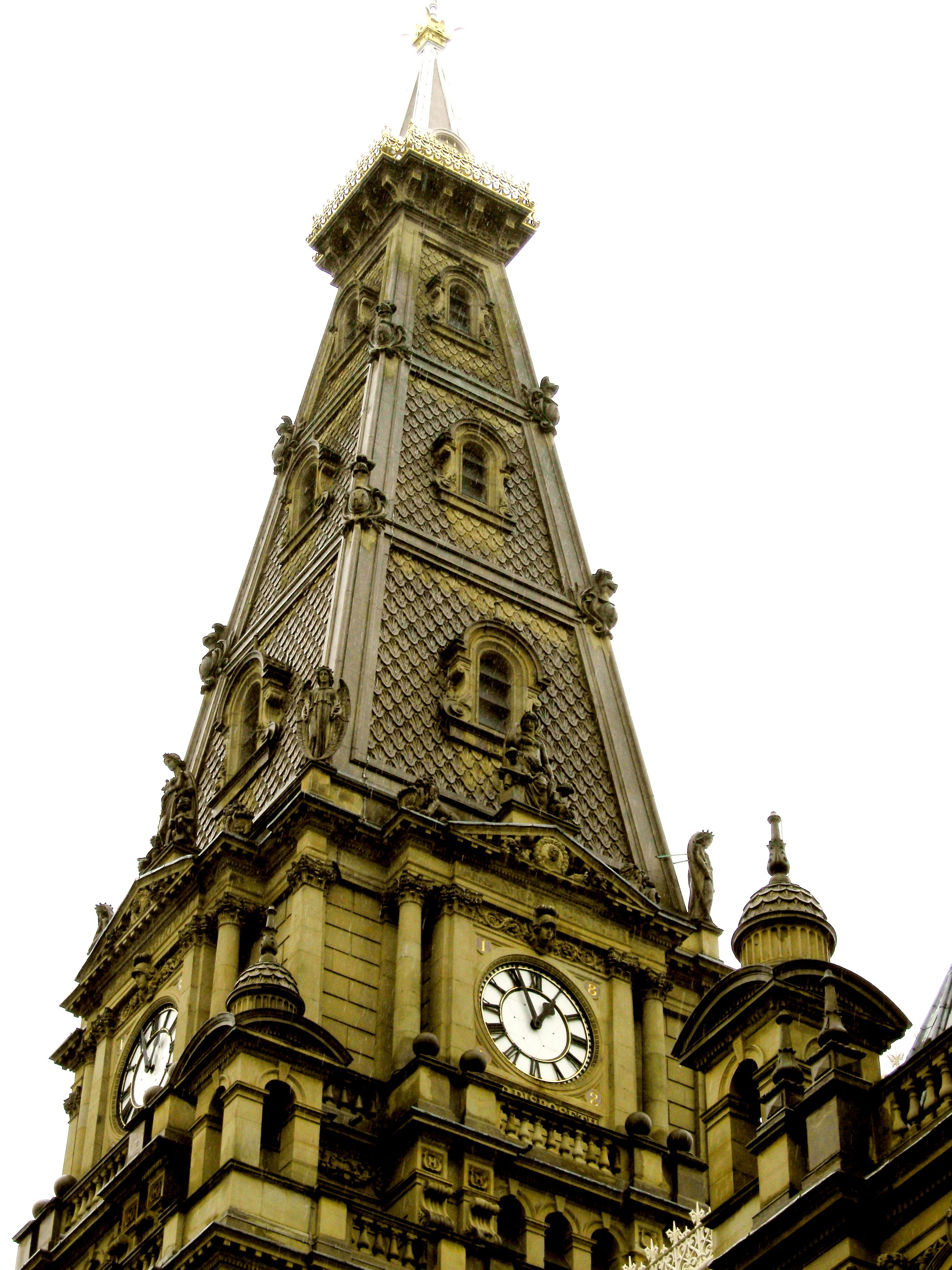 Town Hall, Halifax, West Yorkshire, England. 53 43'28"N. 1 51'38"W.